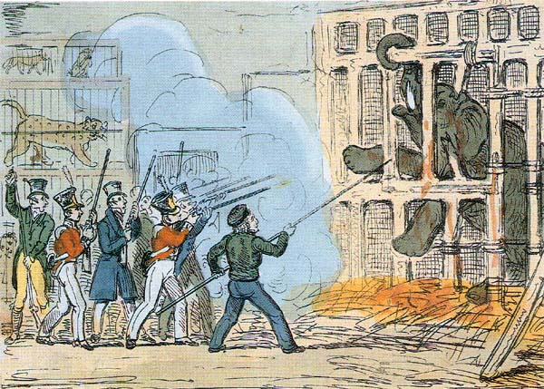 An anonymous cartoon depicting Chunee's execution, 1826. Source: Victorian London